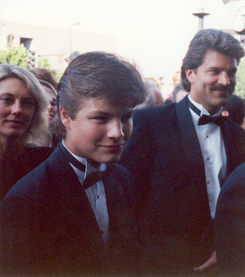 Jay R. Ferguson (left), formerly of the TV show The Outsiders, and Burt Reynolds' sitcom Evening Shade. At right is Dan Dillon. Photo taken on the red carpet at the 1990 Emmy Awards, 9/16/90 - Permission granted to copy, publish, broadcast or post but please credit "photo by Alan Light" if you can